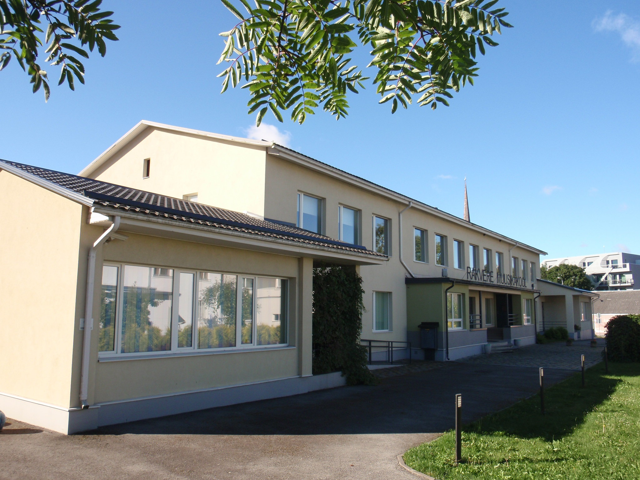 Rakvere muusikakool